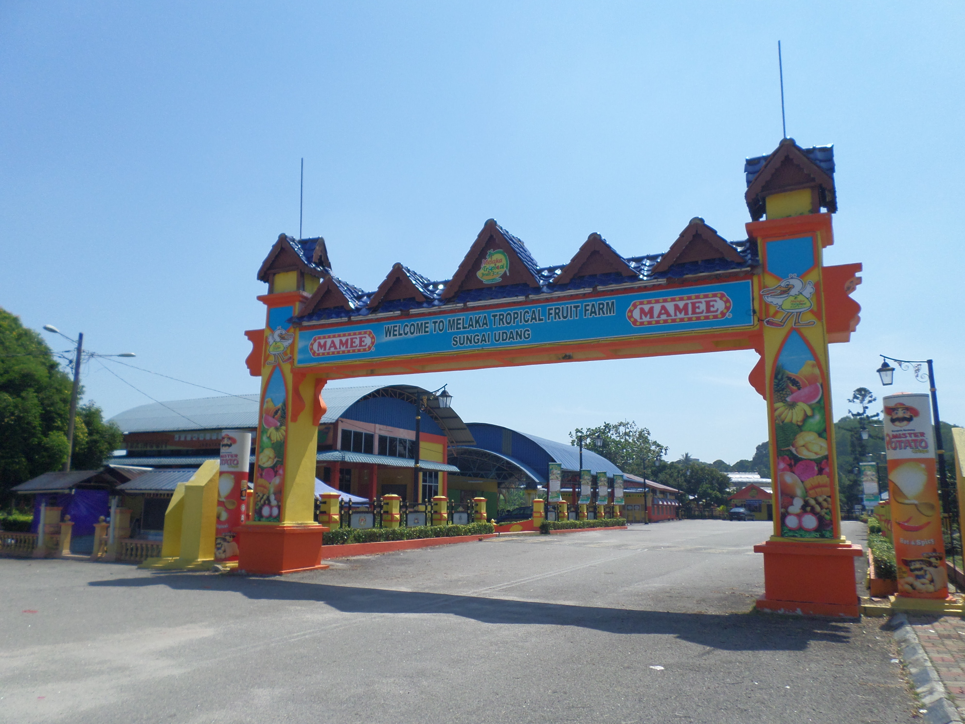 Melaka Tropical Fruit Farm, Sungai Udang, Central Melaka, Melaka, MalaysiaBahasa Melayu: Ladang Buah-Buahan Tropika Melaka, Sungai Udang, Melaka Tengah, Melaka, Malaysia